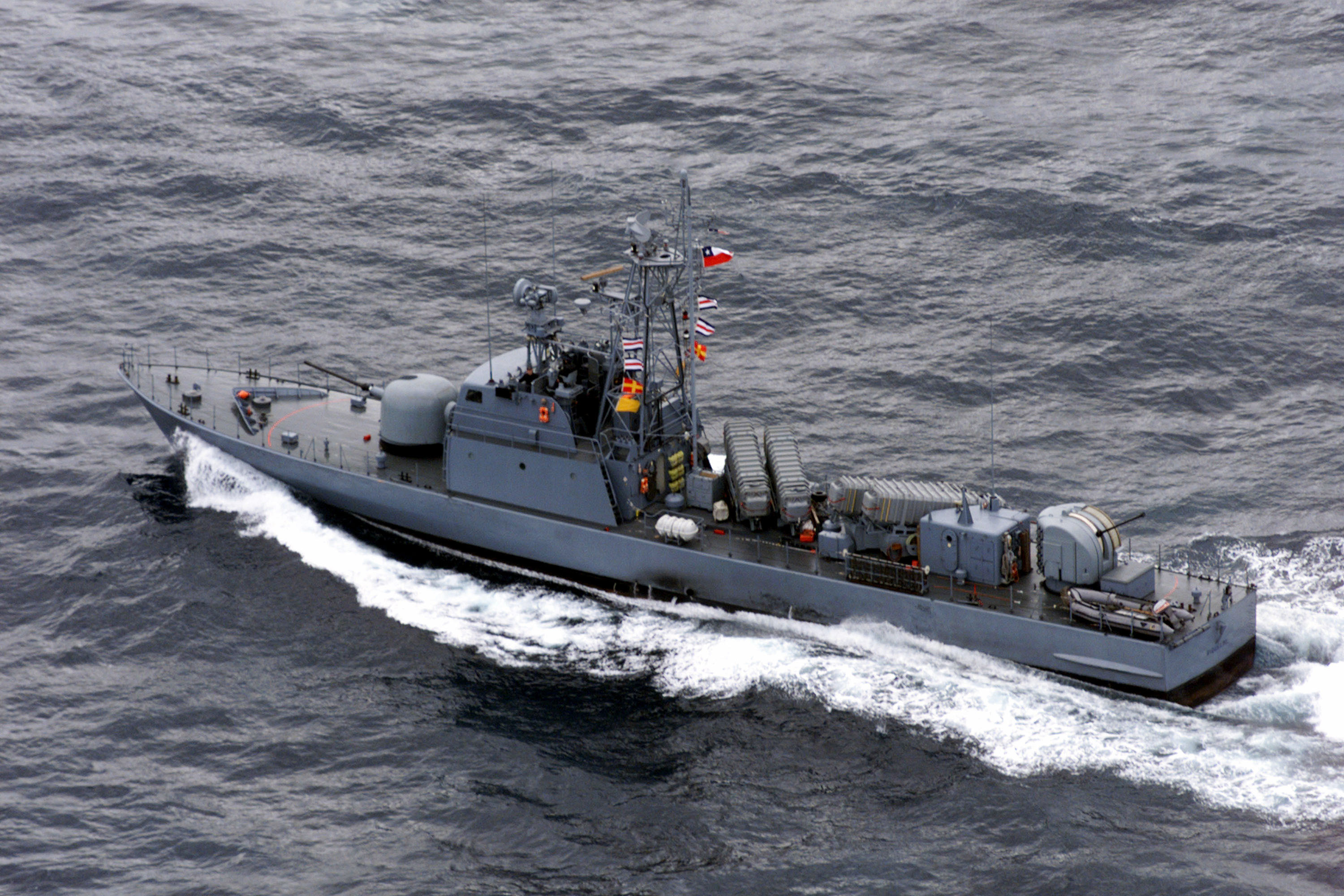 The Chilean Patrol Craft Guardiamarina Riquelme (LM 36) as she participates in Exercise TEAMWORK SOUTH '99 of the coast of Chile.